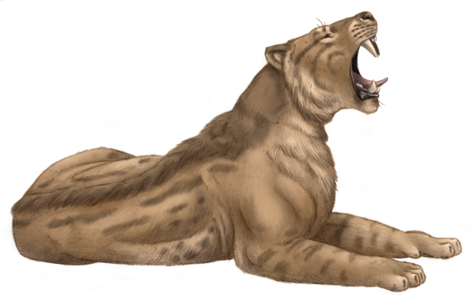 Machairodus from Cerro de Batallones, Middle Miocene, Spain.